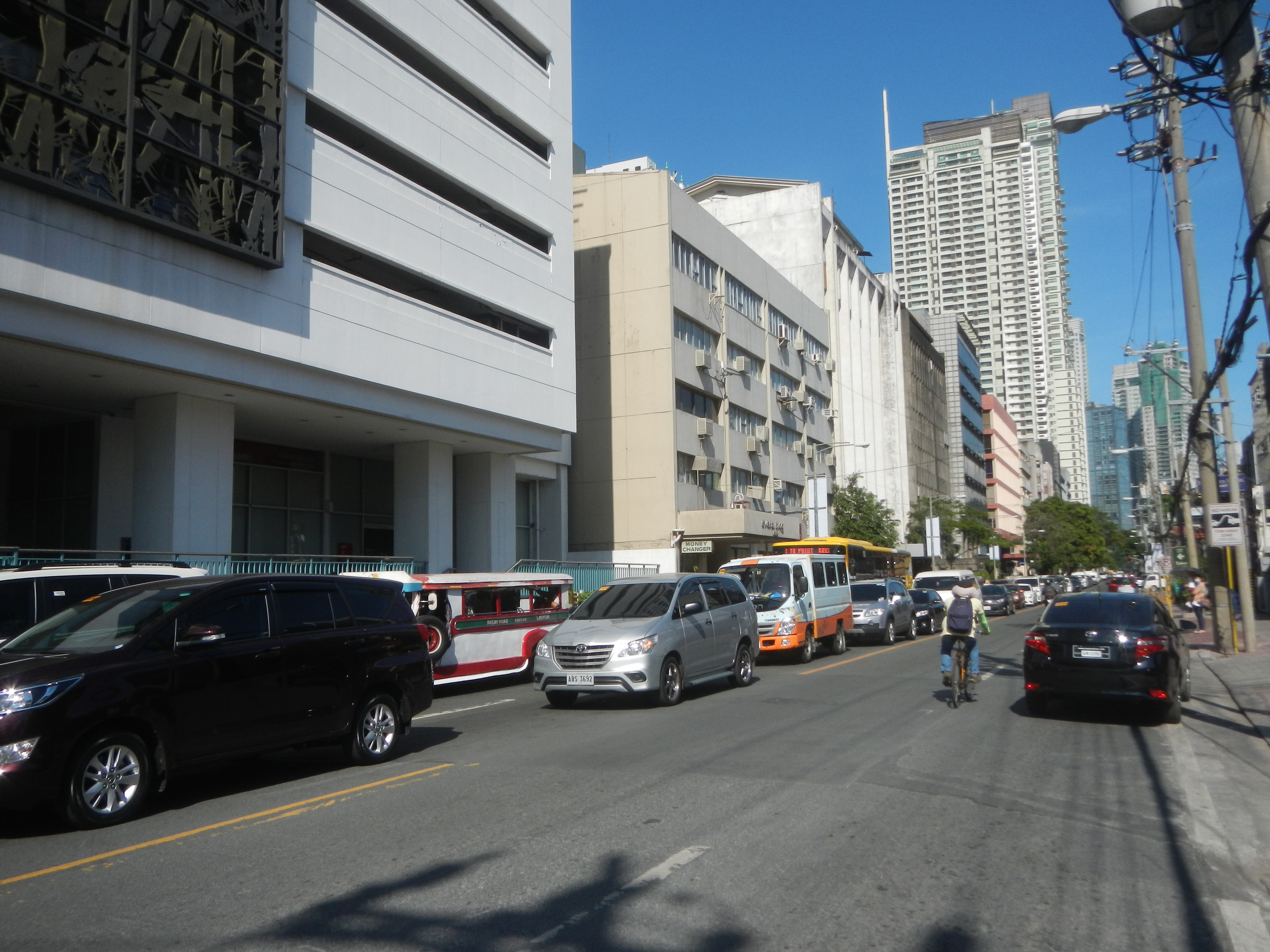 Amorsolo Creek Metro Manila Skyway Metro Manila Skyway Entry (Arnaiz Avenue - Amorsolo Street, Pio del Pilar, Makati City) List of barangays of Metro Manila, Legislative districts of Makati Barangays Pio del Pilar 14°33'13"N 121°0'37"E San Lorenzo 14°33'4"N 121°1'13"E San Lorenzo Village 14°32'47"N 121°1'14"E Bangkal 14°32'37"N 121°0'48"E Makati City Arnaiz Avenue corner Amorsolo Street Amorolo Street 14°33'14"N 121°0'52"E to Chino Roces Avenue Don Chino Roces Avenue (Pasong Tamo) 14°33'17"N 121°0'49"E Legazpi Village (Makati) 14°33'21"N 121°1'6"E The Beacon Makati The Beacon - Arnaiz Tower The Beacon - Arnaiz Tower (Makati) 14°33'6"N 121°0'51"E Arnaiz Avenue 14°33'1"N 121°0'28"E formerly named as Pasay Road and Pio del Pilar Street (in Makati section) and Libertad, Dolores and Cementina Streets (in Pasay section) The Columns Legaspi Village (Arnaiz Avenue - Amorsolo Street, Pio del Pilar, Makati City) The Columns 14°33'5"N 121°0'56"E (Note: Judge Florentino Floro, the owner, to repeat, Donor Florentino Floro of all these photos hereby donate gratuitously, freely and unconditionally all these photos to and for Wikimedia Commons, exclusively, for public use of the public domain, and again without any condition whatsoever).